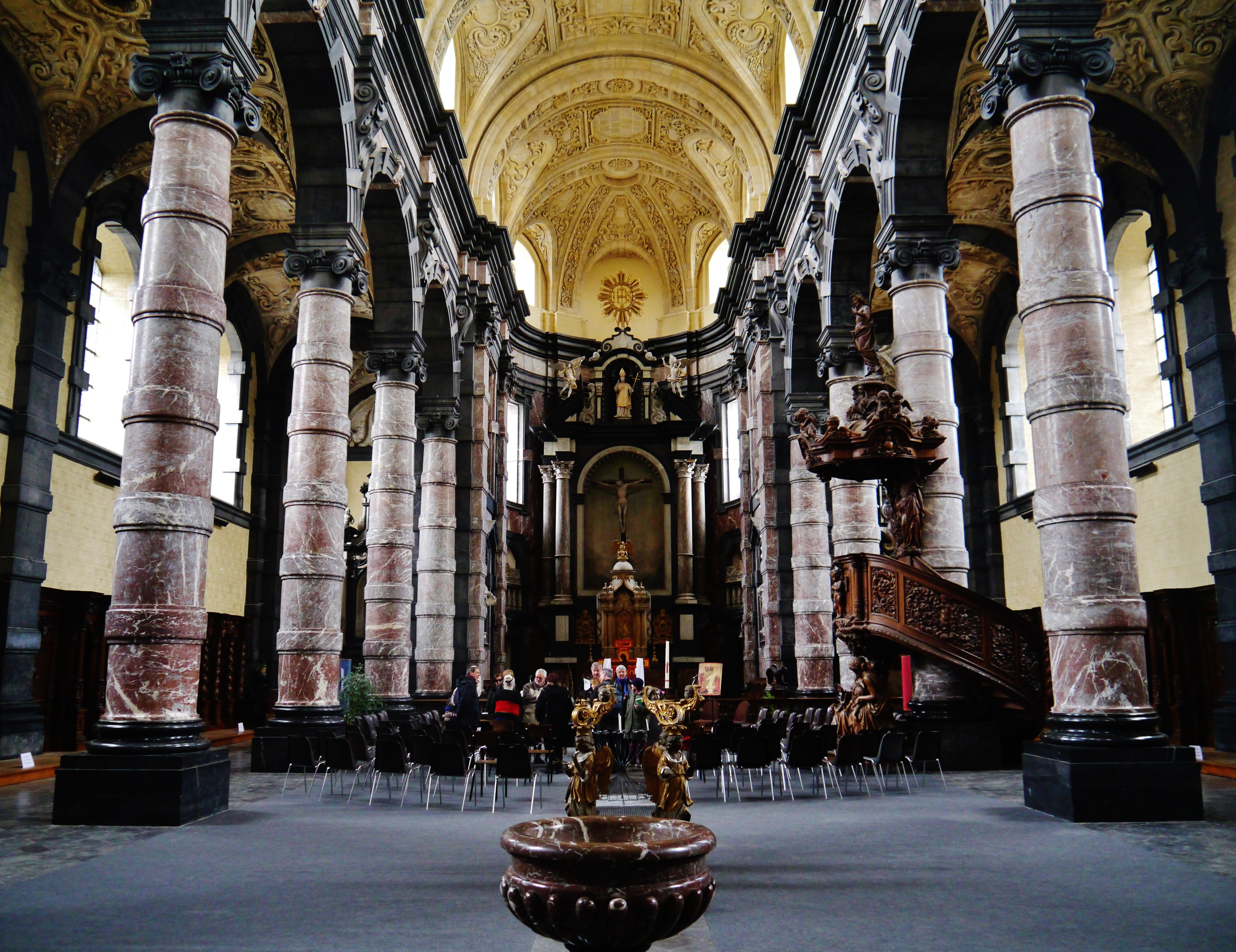 Nave of the Church of St. Lupus, Namur, Province of Namur, Wallonia, Belgium